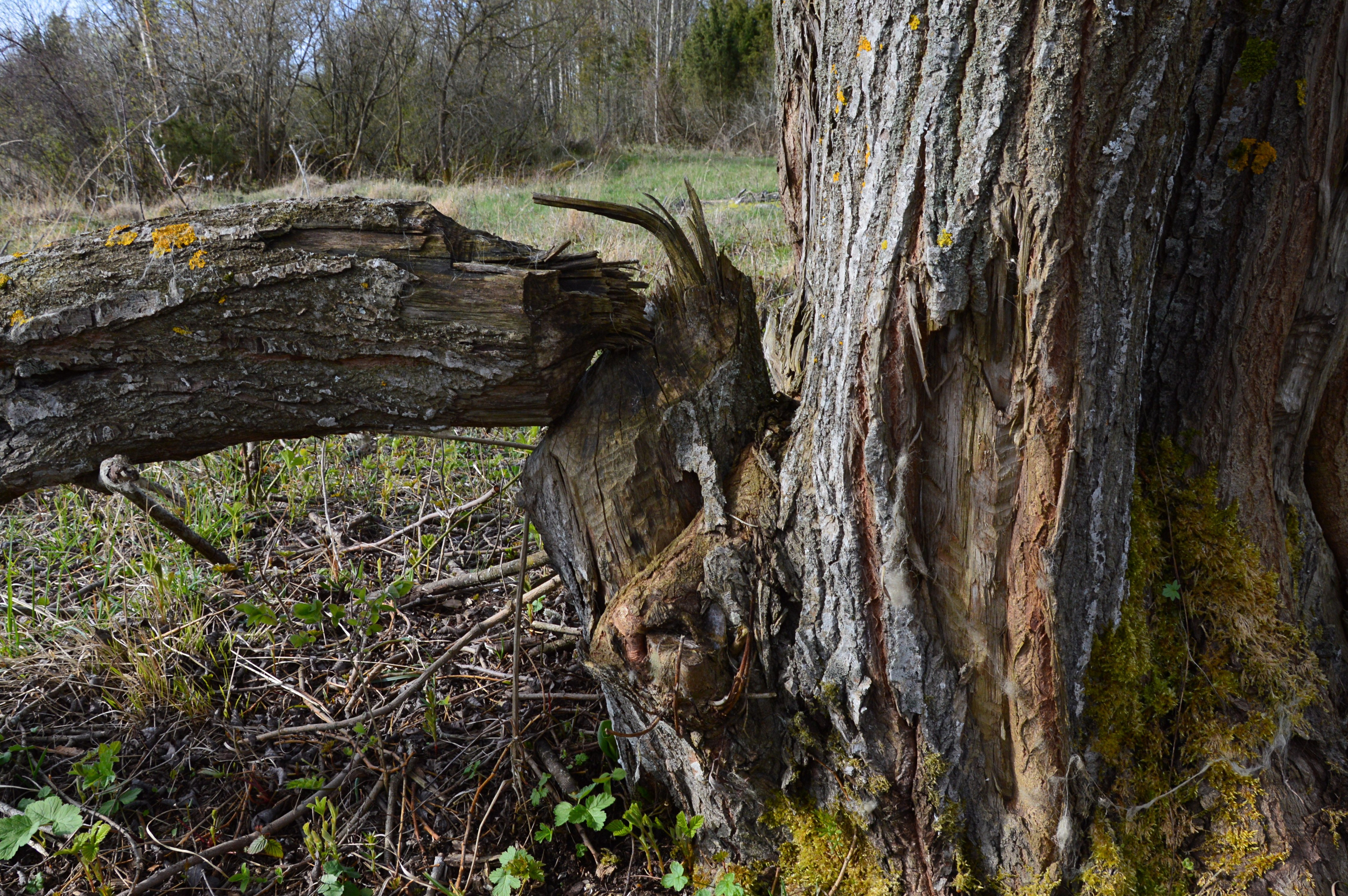 Signs of Castor fiber activity in Osmussaar, Estonia.